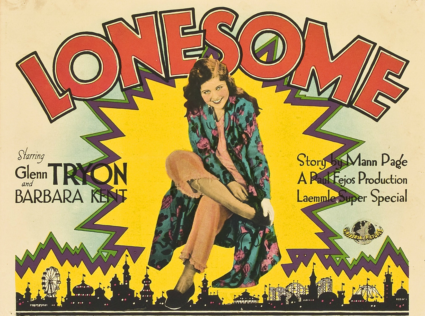 Lobby card for the American comedy drama film Lonesome (1928).